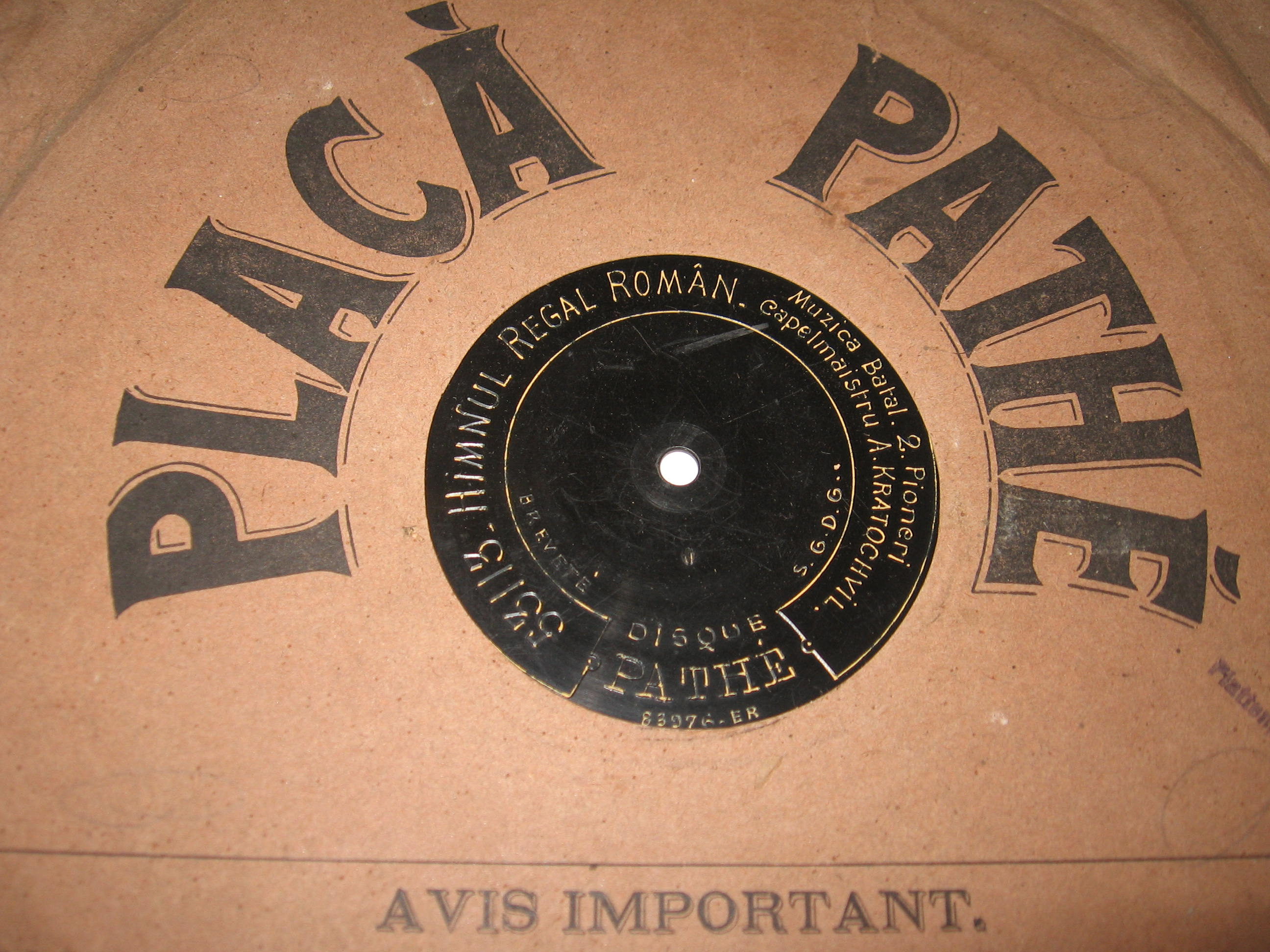 (Romanian) First record of the instrumental royal anthem "Long live the King!", Music Pioneers Battalion 2, 1910